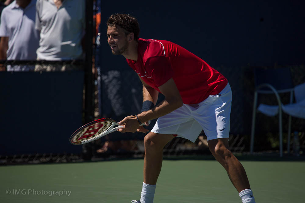 Grigor Dimitrov at the 2012 US Open